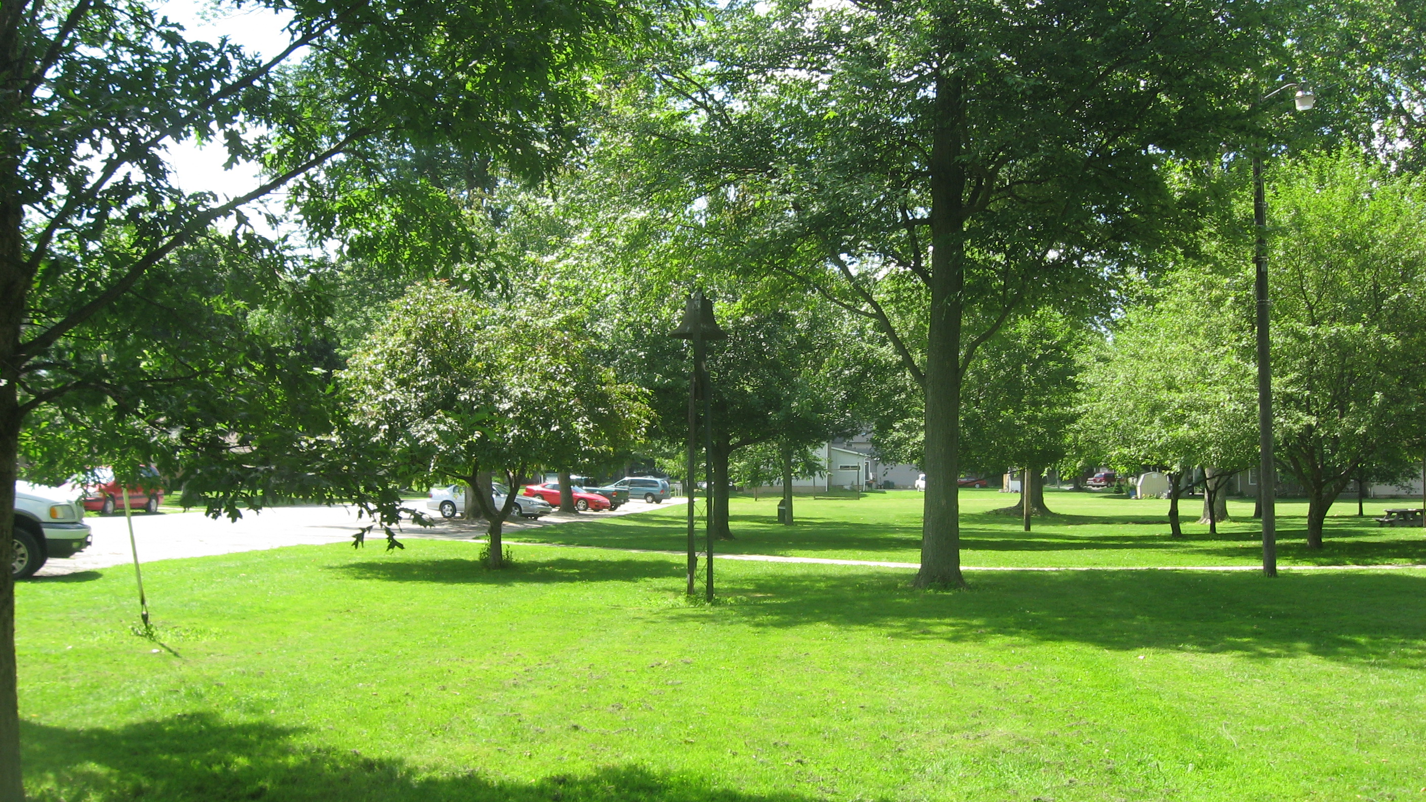 A lawn on the eastern edge of the Nappanee West Park, located along the western side of Nappanee Street in Nappanee, Indiana, United States. Created in 1923, the park is listed on the National Register of Historic Places.